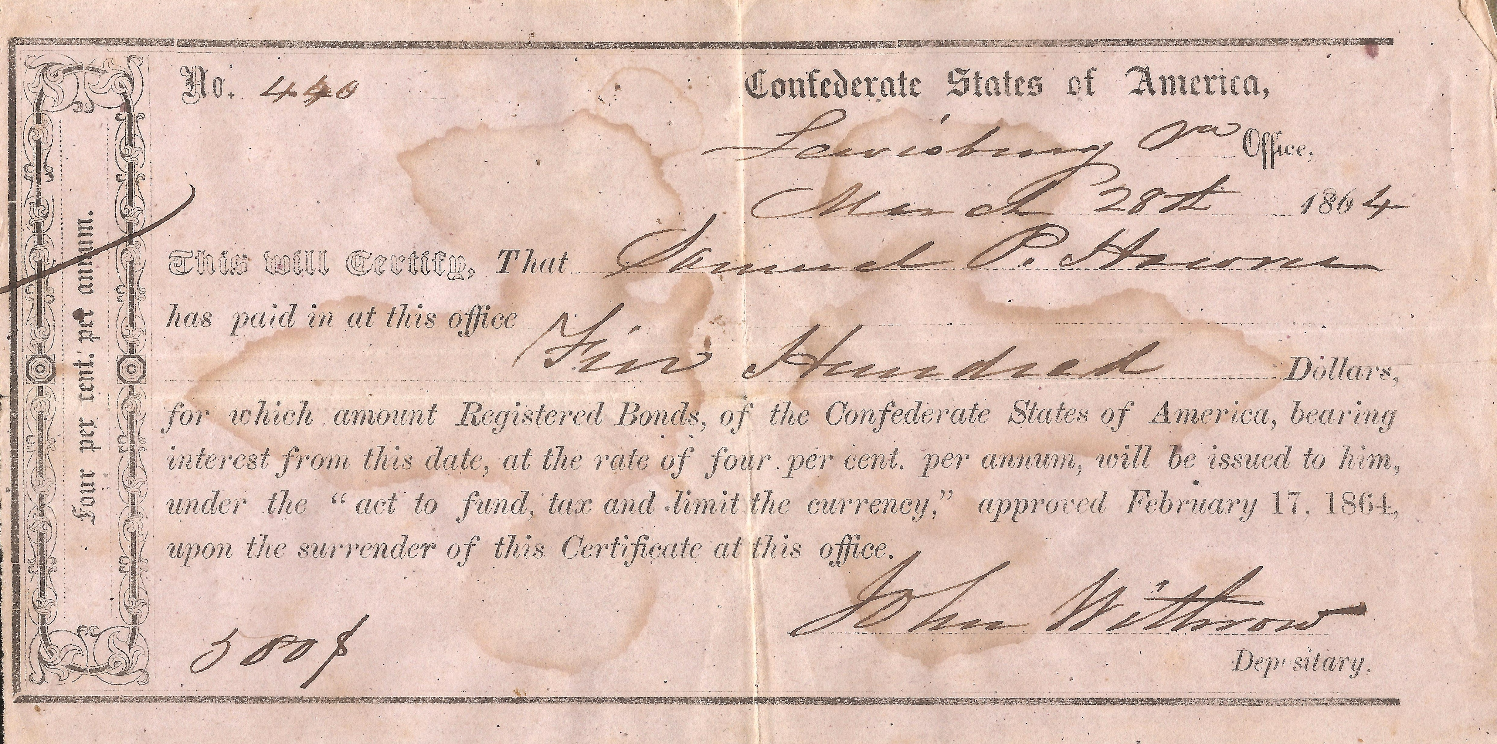 A Confederate bond for $500 issued to Samuel P. Hawver of Greenbrier County, West Virginia, on March 28, 1864